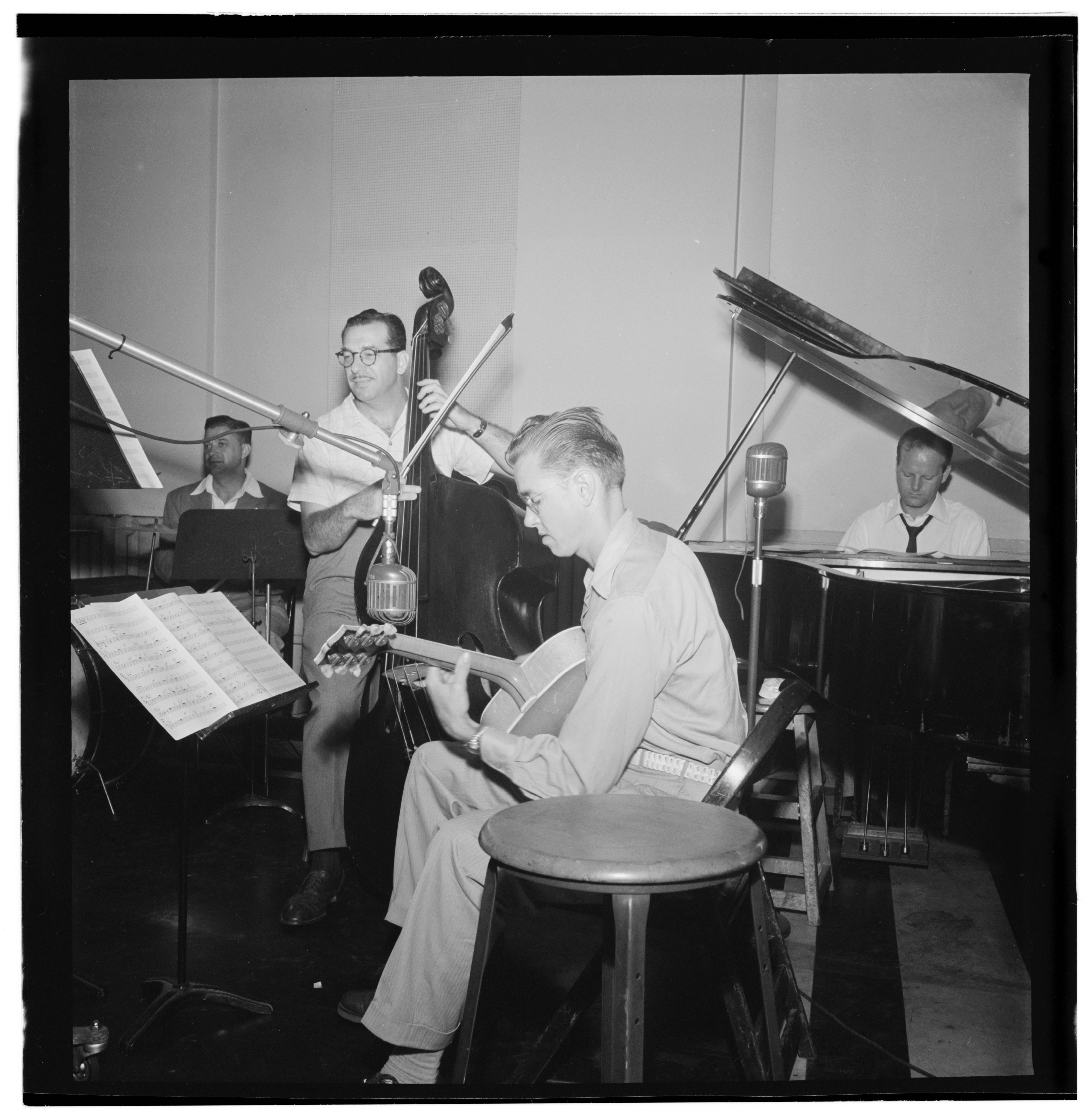 Gottlieb, William P., 1917-, photographer. [Billy Eckstine's orchestra, New York, N.Y., between 1946 and 1948] 1 negative : b&w ; 2 1/4 x 2 1/4 in. Notes: Gottlieb Collection Assignment No. 120 Purchase William P. Gottlieb Forms part of: William P. Gottlieb Collection (Library of Congress). Subjects: Jazz musicians--1940-1950. Guitarists--1940-1950. Double bassists--1940-1950. Pianists--1940-1950. Format: Portrait photographs--1940-1950. Cityscape photographs--1940-1950. Film negatives--1940-1950. Rights Info: Mr. Gottlieb has dedicated these works to the public domain, but rights of privacy and publicity may apply. Repository: (negative) Library of Congress, Prints & Photographs Division, Washington D.C. 20540 USA, Part Of: William P. Gottlieb Collection (DLC) 99-401005 General information about the Gottlieb Collection is available at Persistent URL: Call Number: LC-GLB23- 1102 This work is from the William P. Gottlieb collection at the Library of Congress. Rights and restrictions.In accordance with the wishes of William Gottlieb, the photographs in this collection entered into the public domain on February 16, 2010.